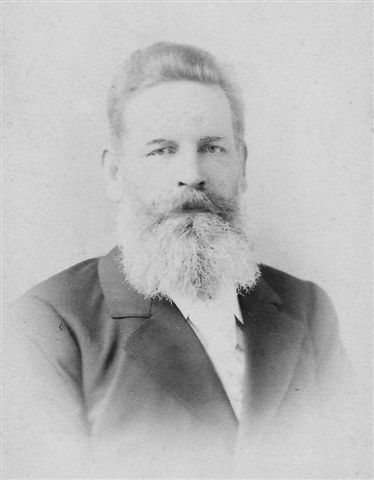 Nikolai Karl Adolf Anderson, Baltic-German Philologist (ca 1880 in Minsk)